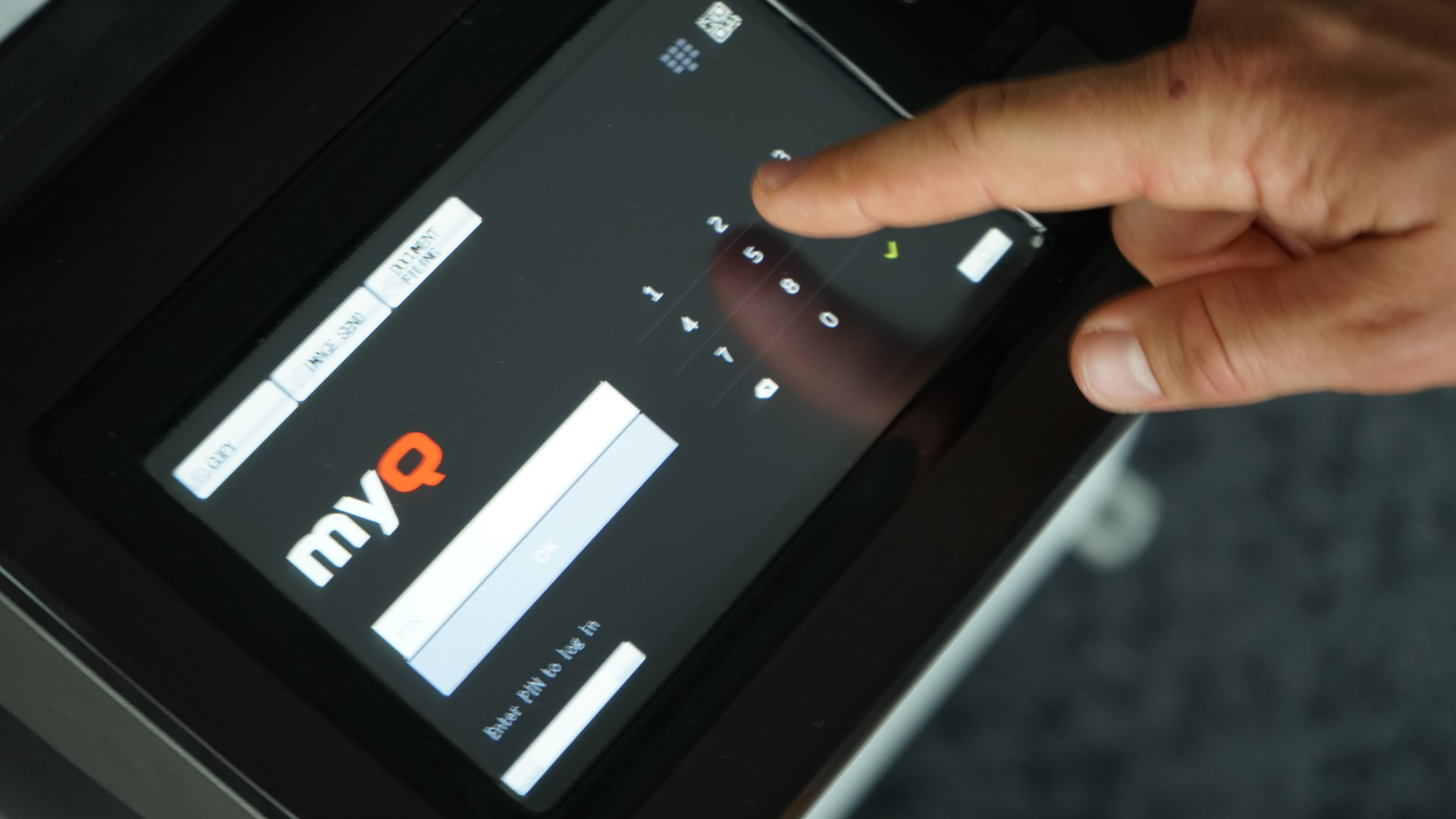 MyQ solution program login screen on a printer terminal